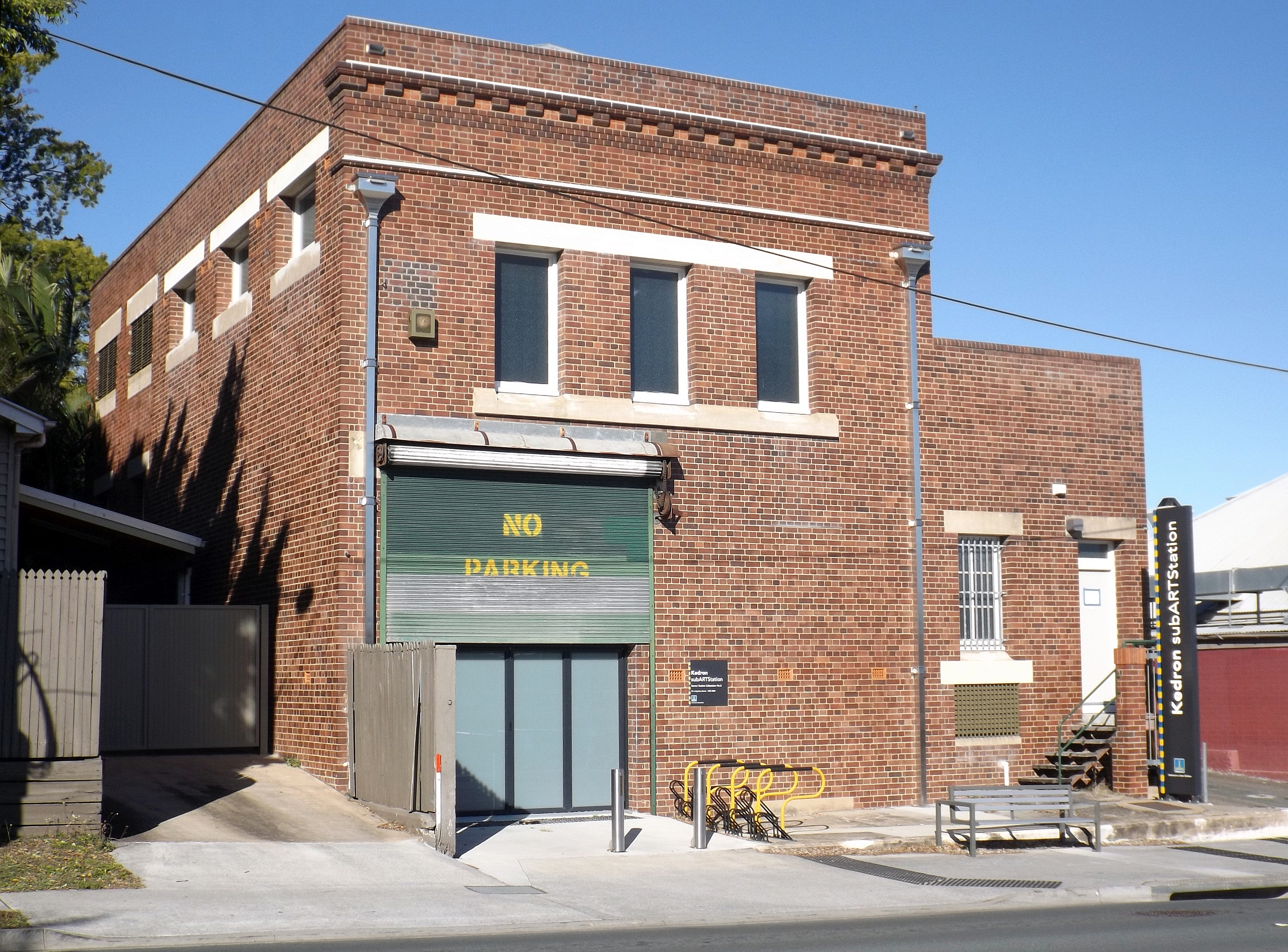 Photo of Brisbane City Council Tramways Substation No. 8 from the other side of the street in Wooloowin, Brisbane, Queensland, Australia.